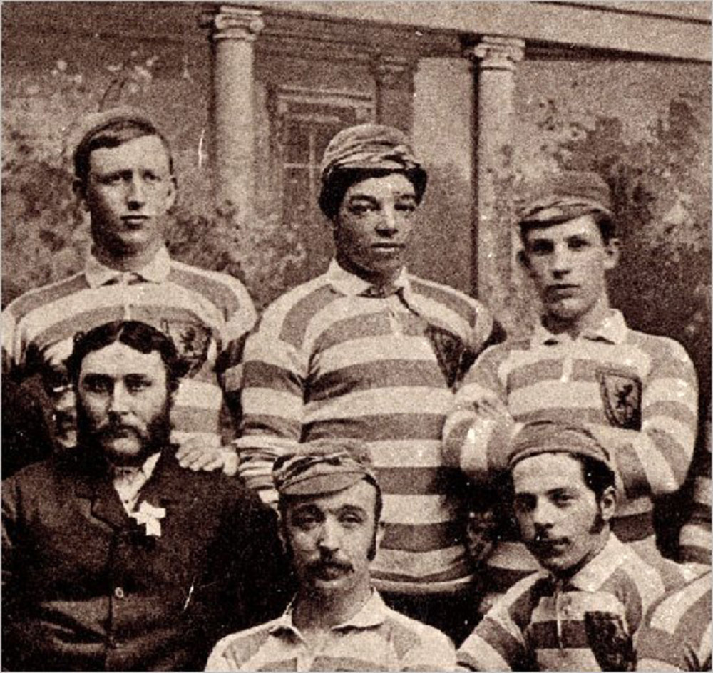 Andrew Watson (top centre) with the Scottish team that played England at Hampden Park on the 11 March 1882.